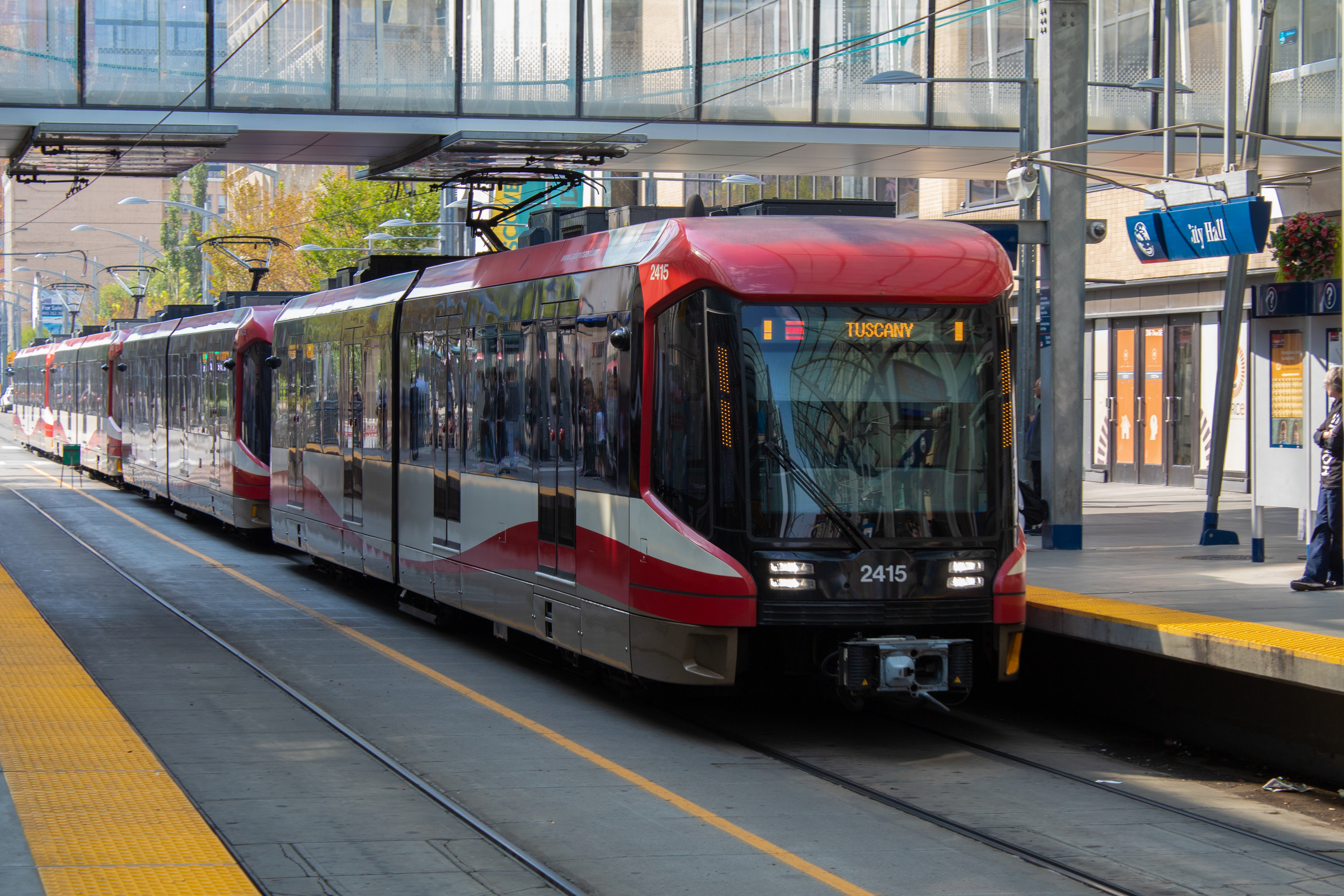 Calgary Transit Siemens S200 #2415 approaching City Hall station.